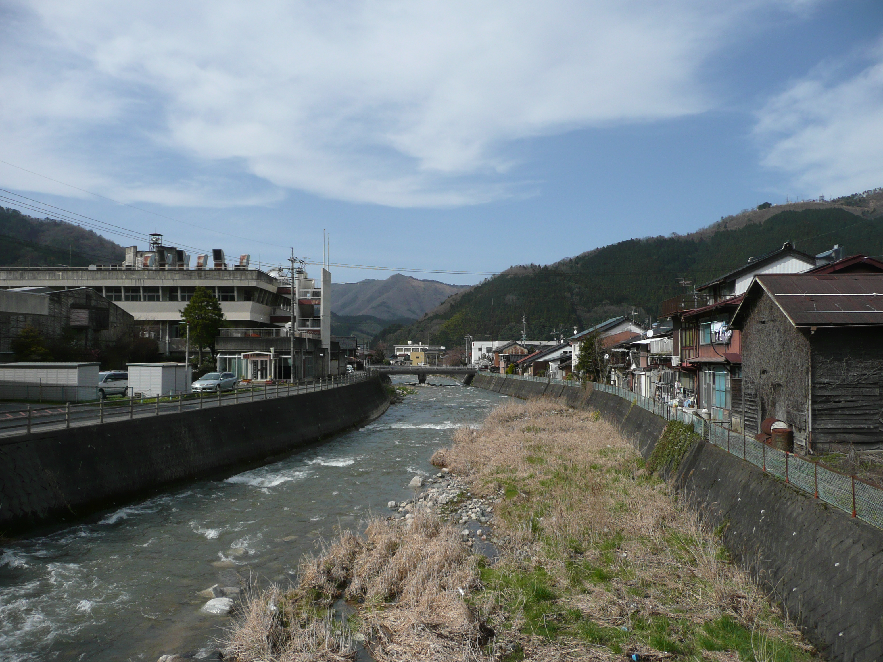 智頭町中心部を流れる土師川